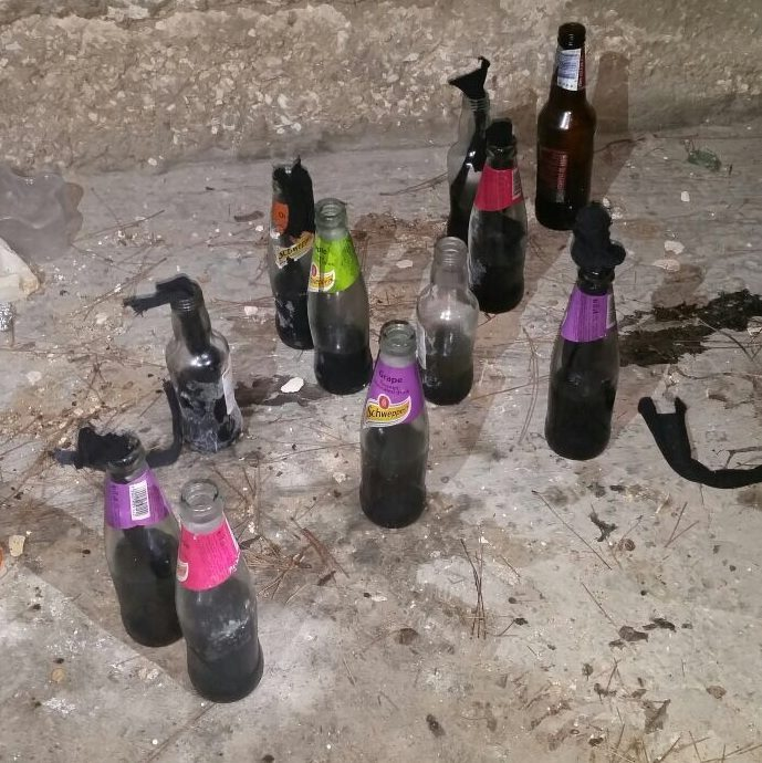 Israeli Forces located Molotov Cocktails in East Jerusalem at October 2015